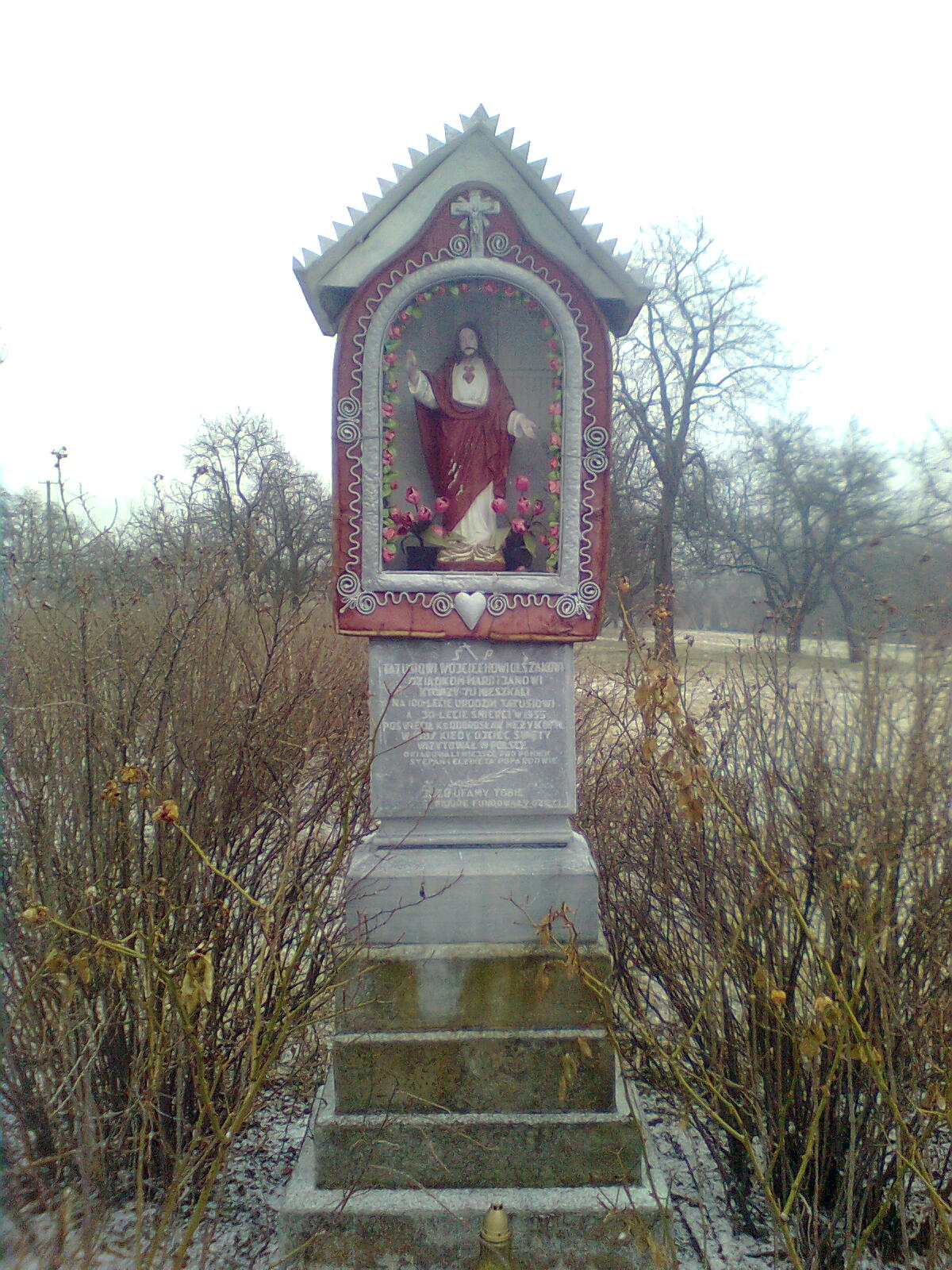 Wayside shrine of Jesus Christ in Podegrodzie (Lesser Poland Voivodeship)